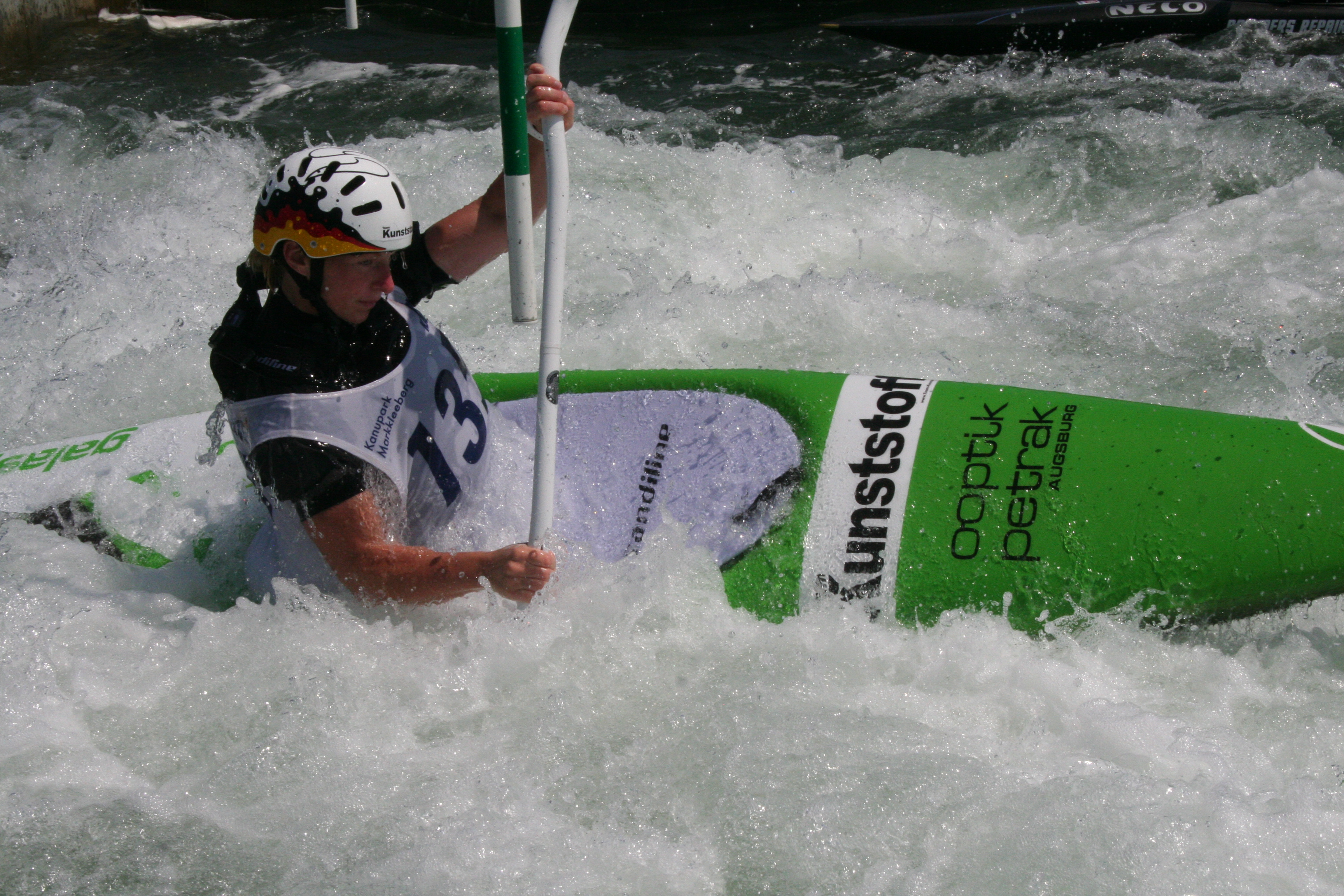 Image of Claudia Bär in Markkleeberg 2011 at the ICF Canoe Slalom World Cup (Img.: O.Strubel)